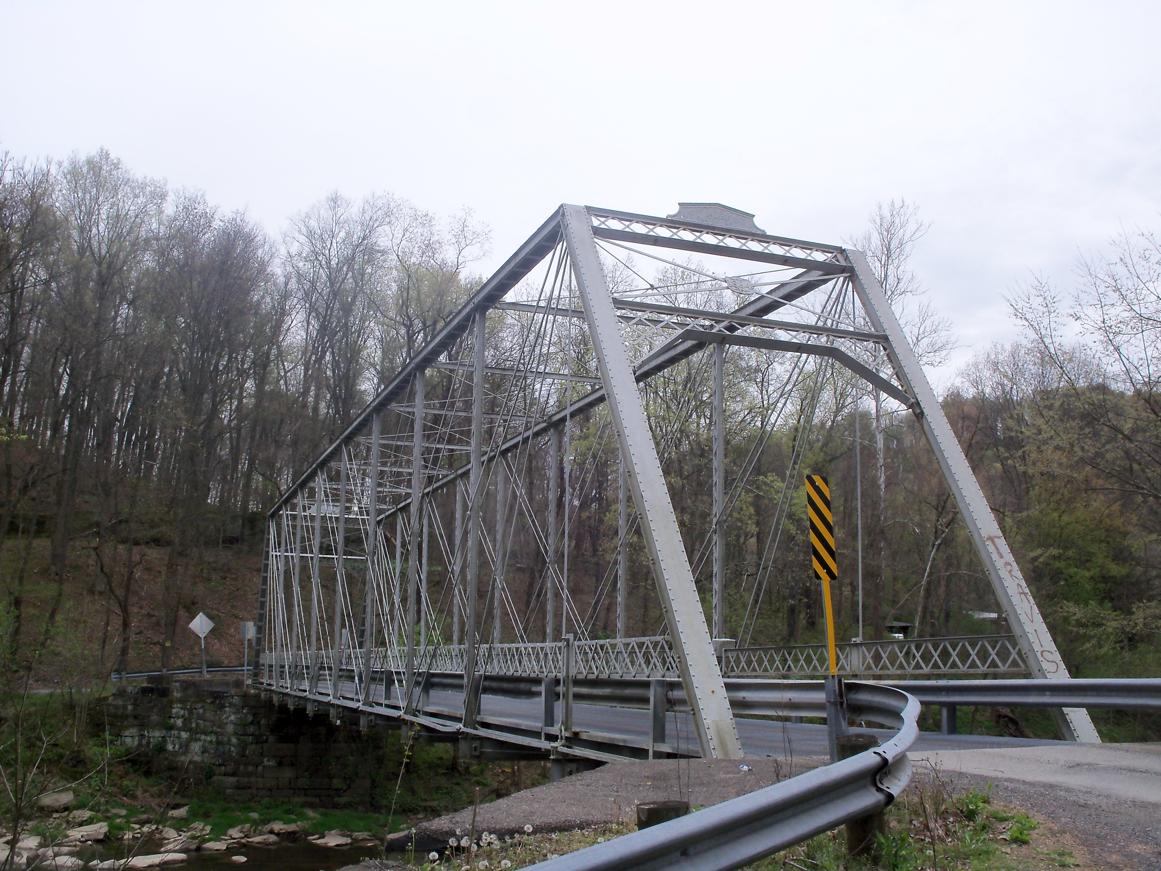 Grimms Bridge is a one lane through truss bridge erected in 1884 by the Wrought Iron Bridge Company over the Little Beaver Creek east of Calcutta, Ohio